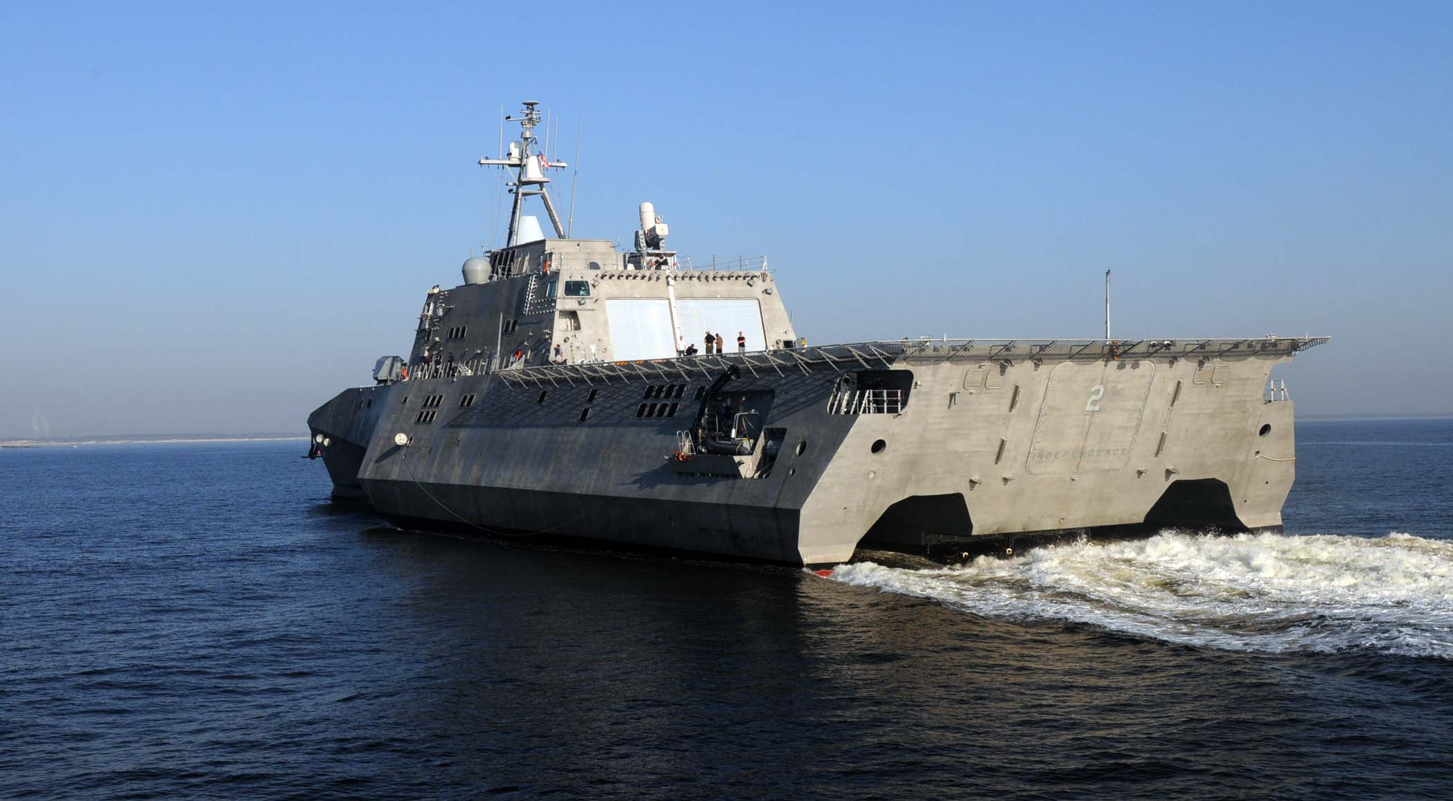 ATLANTIC OCEAN (April 2, 2010) The Littoral combat ship USS Independence (LCS 2) approaches Mayport, Fla. Independence is in the Atlantic Ocean on her maiden underway. (U.S. Navy photo by Mass Communication Specialist 2nd Class Justan Williams/Released)